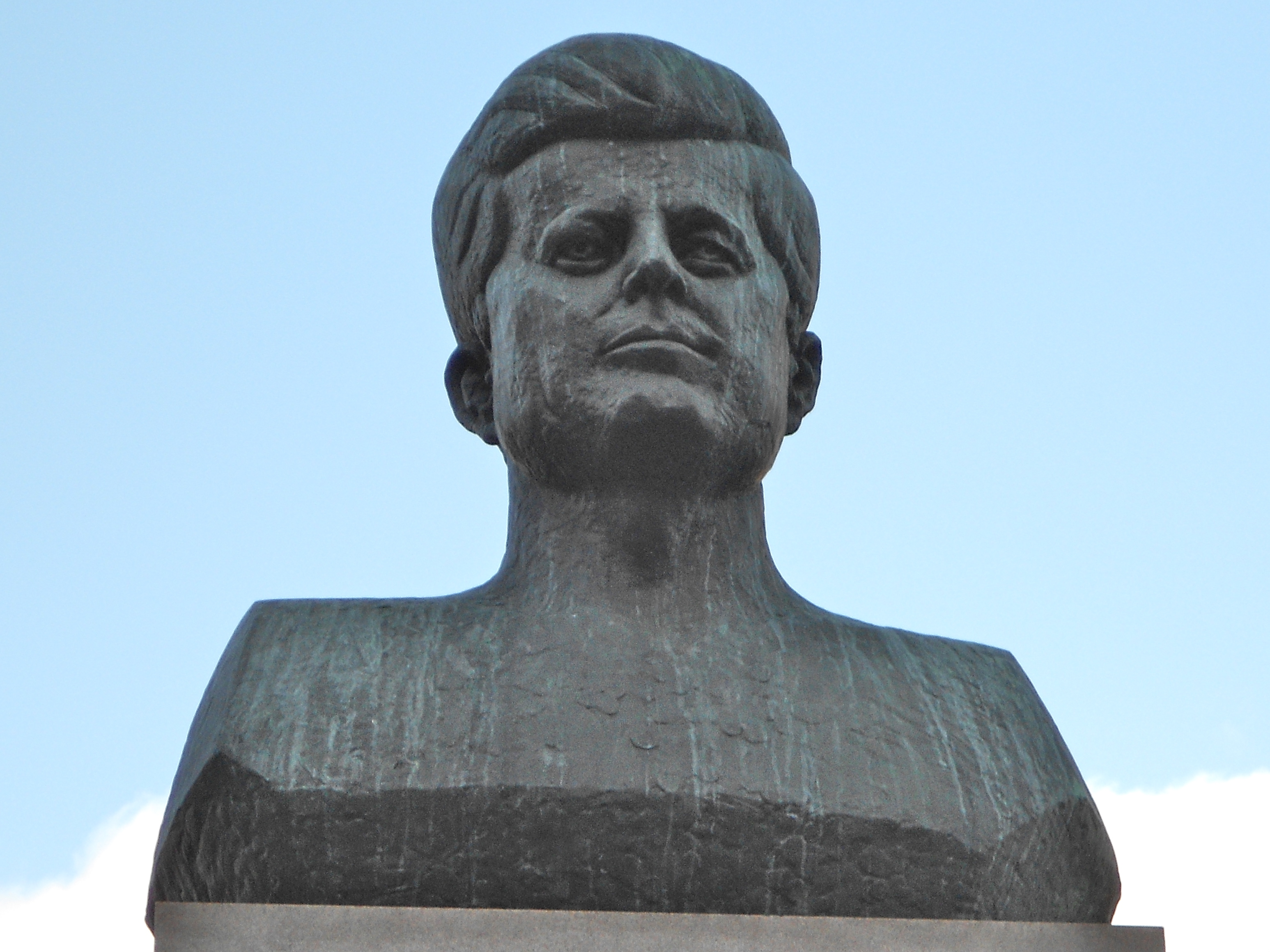 Bust by Jacques Lipchitz of JF Kennedy (1965) at the south end of Military Park in Newark, N.J. Documented by the Smithonian Siris system at Frank Grad and Sons, fabricator. Title: John Fitzgerald Kennedy, (sculpture). Other Titles: John F. Kennedy, (sculpture).